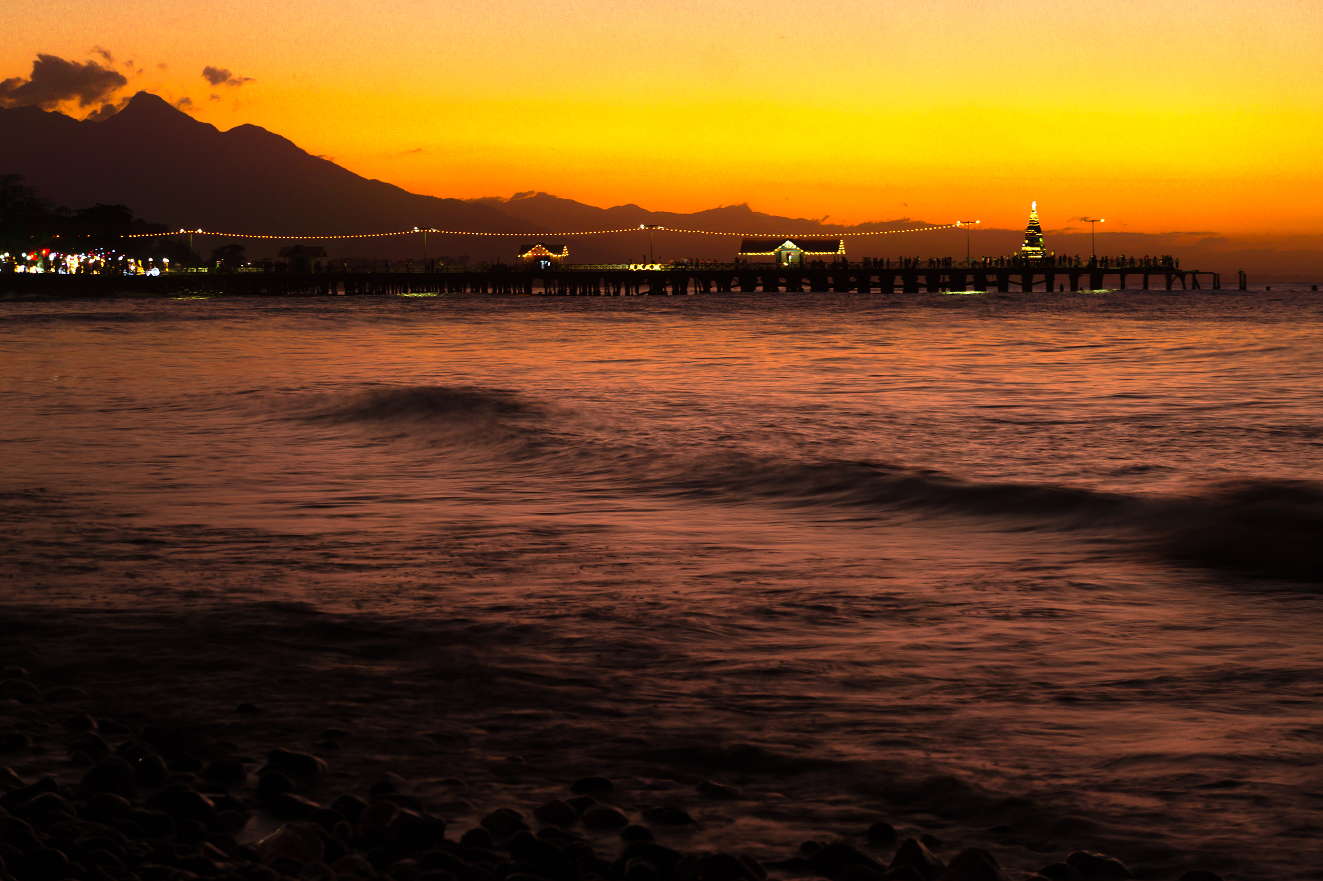 Photograph taken in December 2018